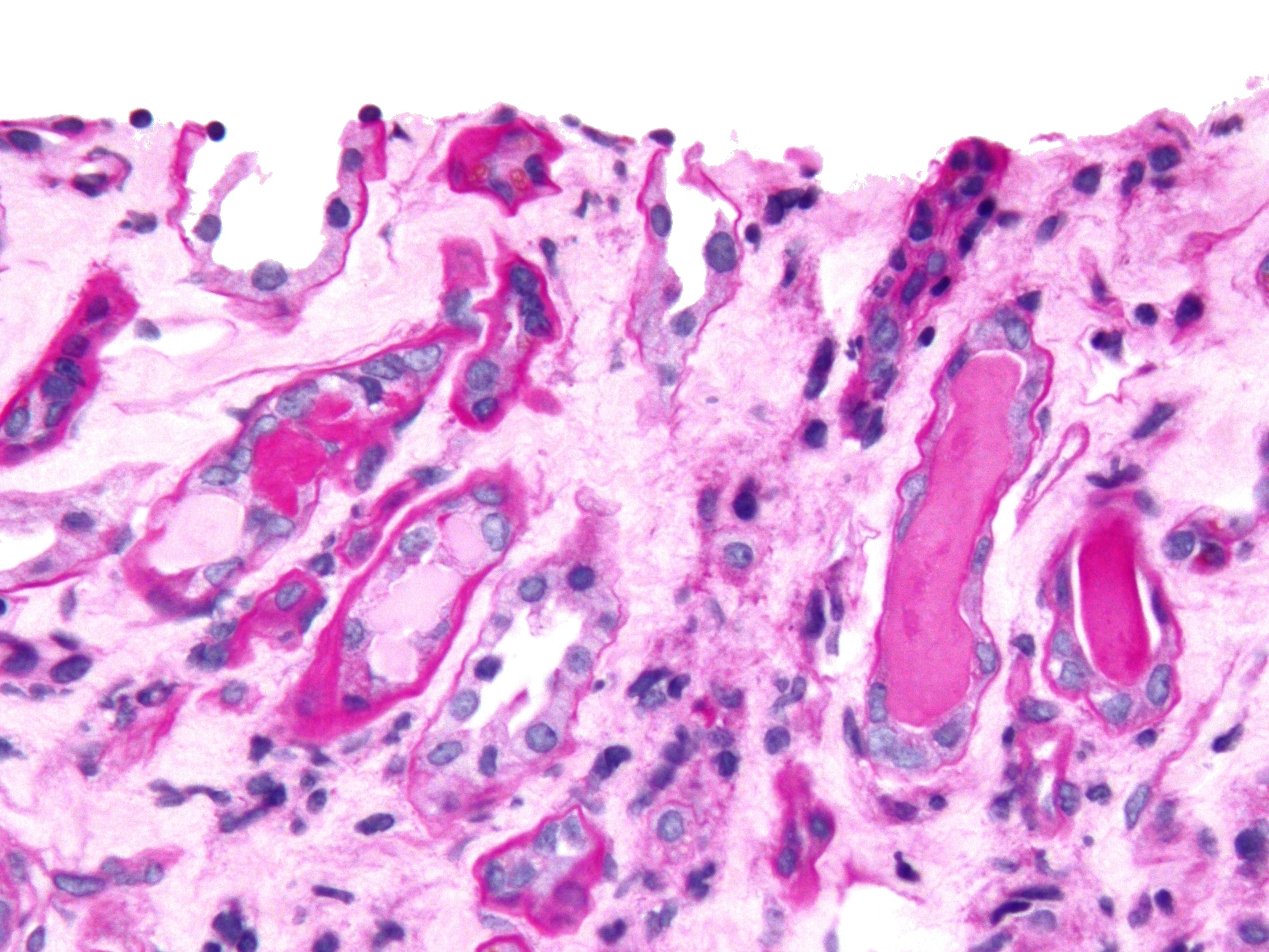 Very high magnification micrograph of cast nephropathy, also myeloma cast nephropathy. PAS stain. Kidney biopsy. Hyaline casts are PAS positive. Myelomatous casts are PAS negative. Related images High mag. Very high mag. Very high mag. Very high mag. (cropped)